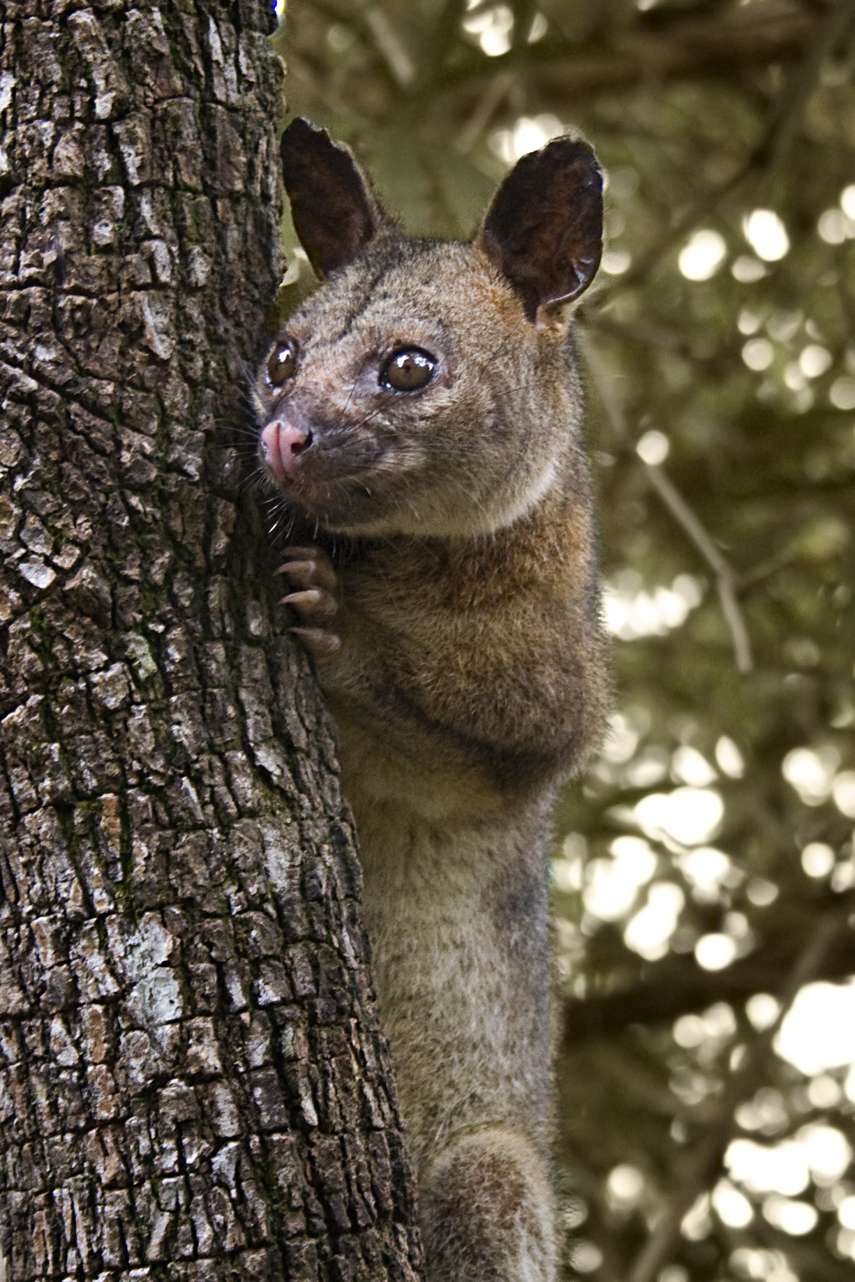 A male northern brushtail possum in Humpty Doo, Darwin, Northern Territory, Australia.